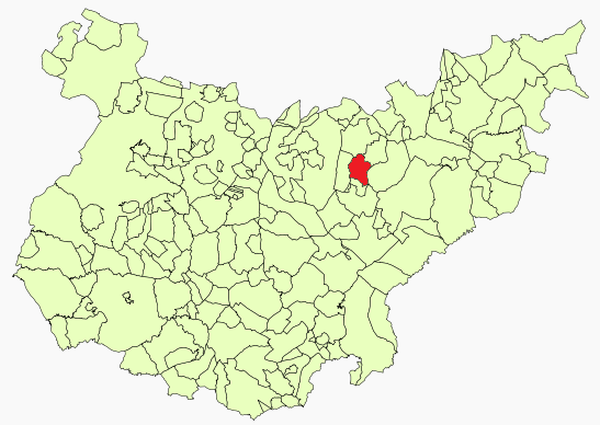 Magacela